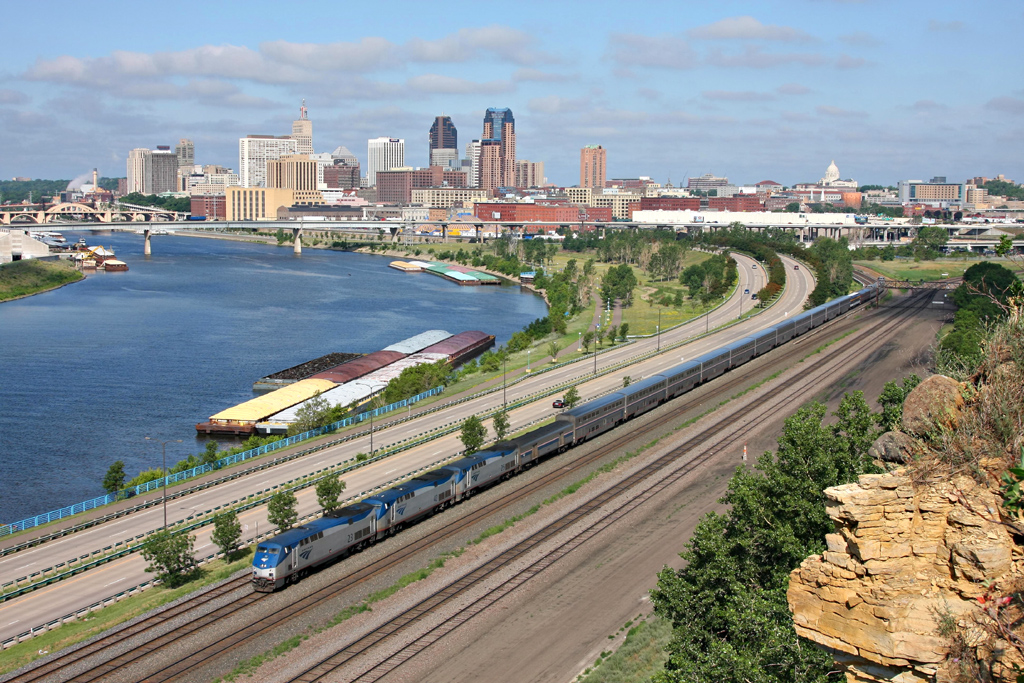 Here the Builder with three P42DCs on the front and five private cars on the rear is seen from the top of Dayton's Bluff on July 10, 2009.